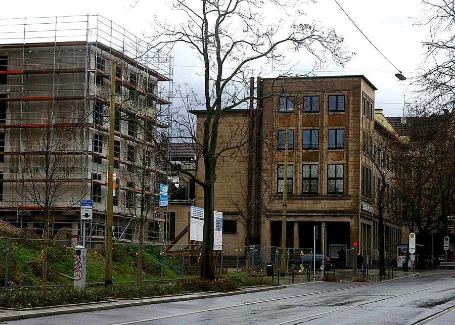 central library in Witten